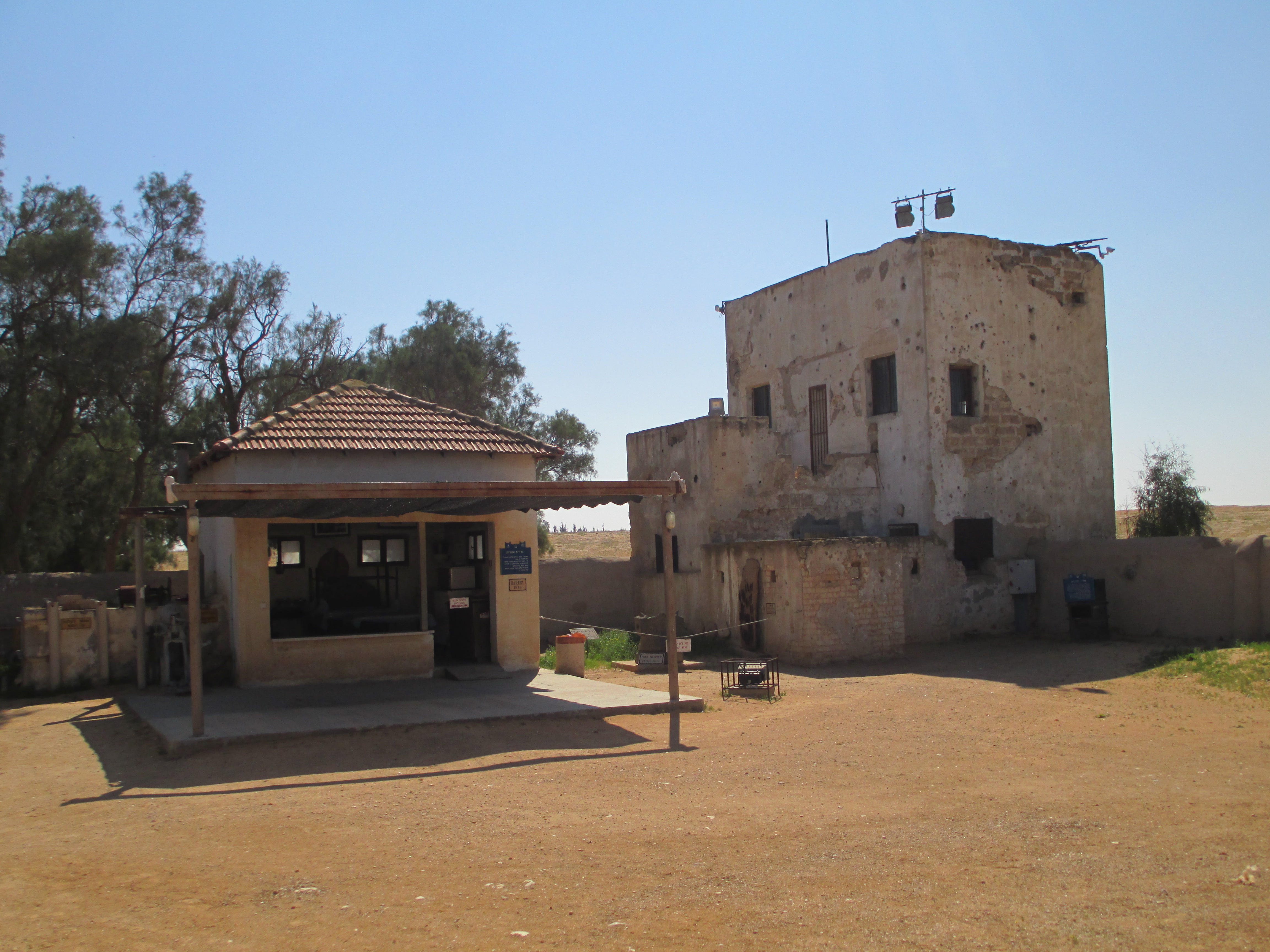 Mitzpe Gvulot